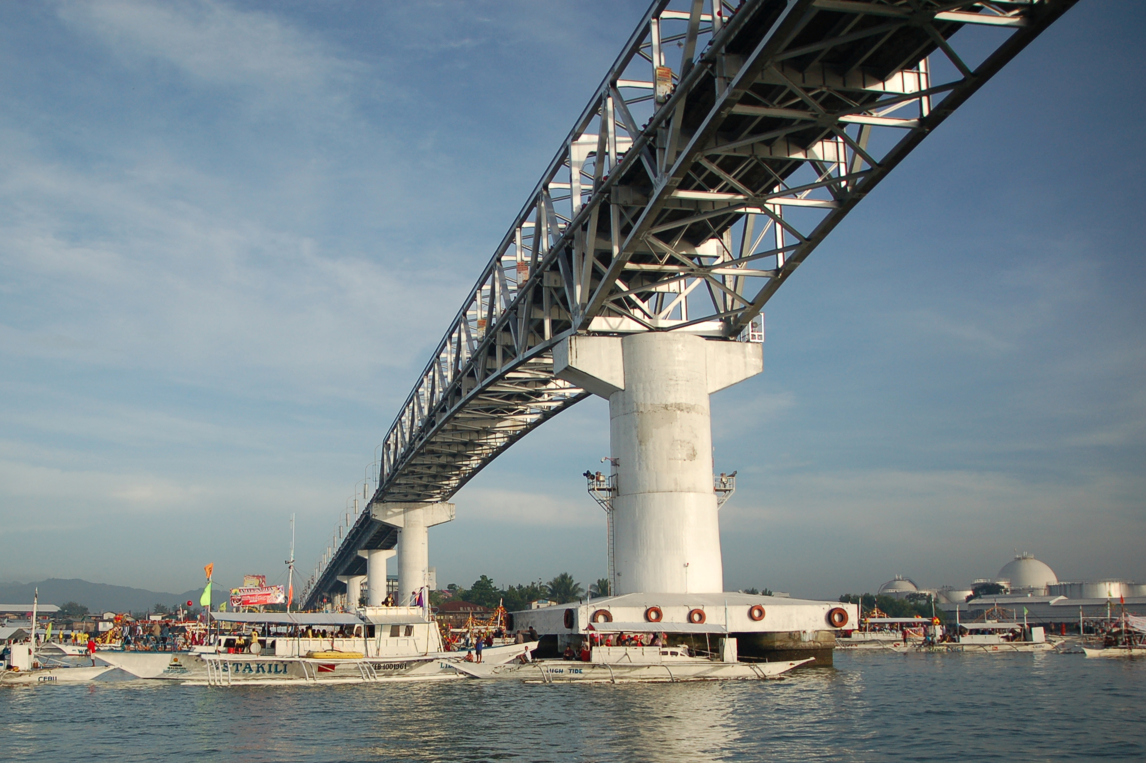 This is the first bridge across Mactan Channel built in 1970.